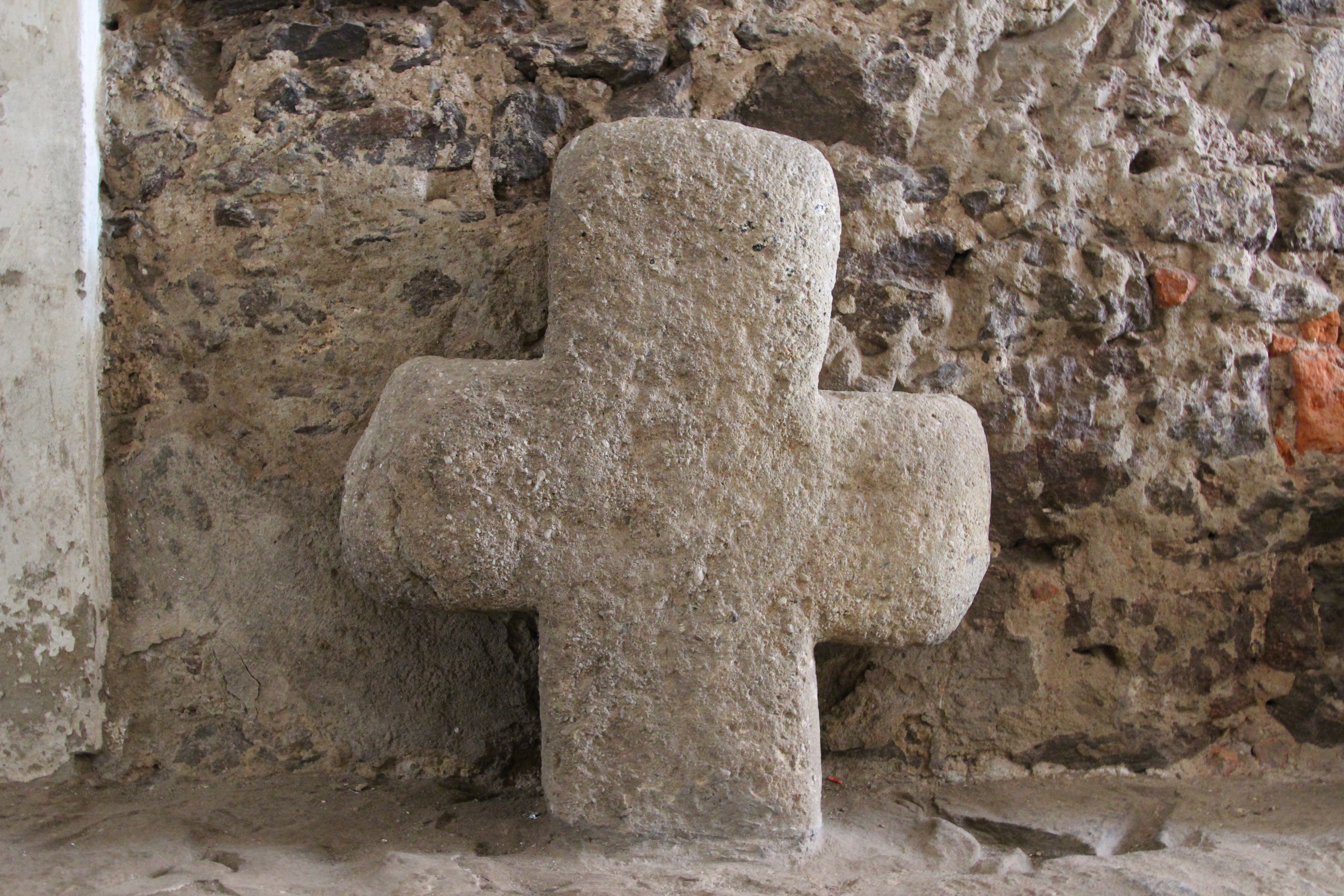 Stone cross on Grodno Castle in Zagórze Śląskie